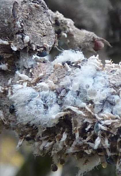 Eriosoma lanigerum (wooly apple aphids) on apple branch